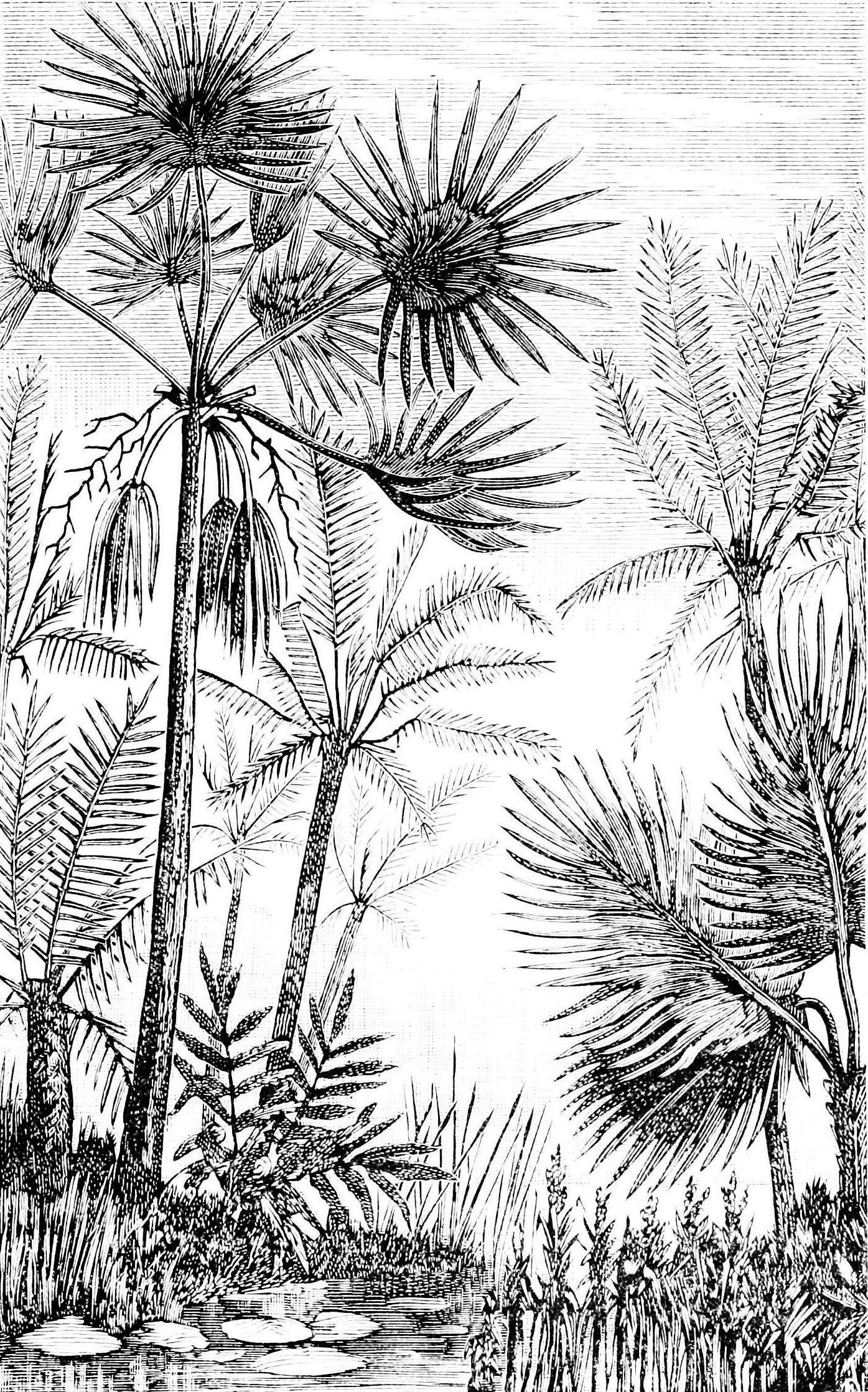 Principal palms and Cycadeae of middle tertiary Europe